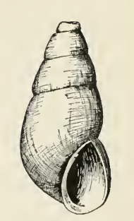 Odostomia tenuis Carpenter, 1857; Pyramidellidae